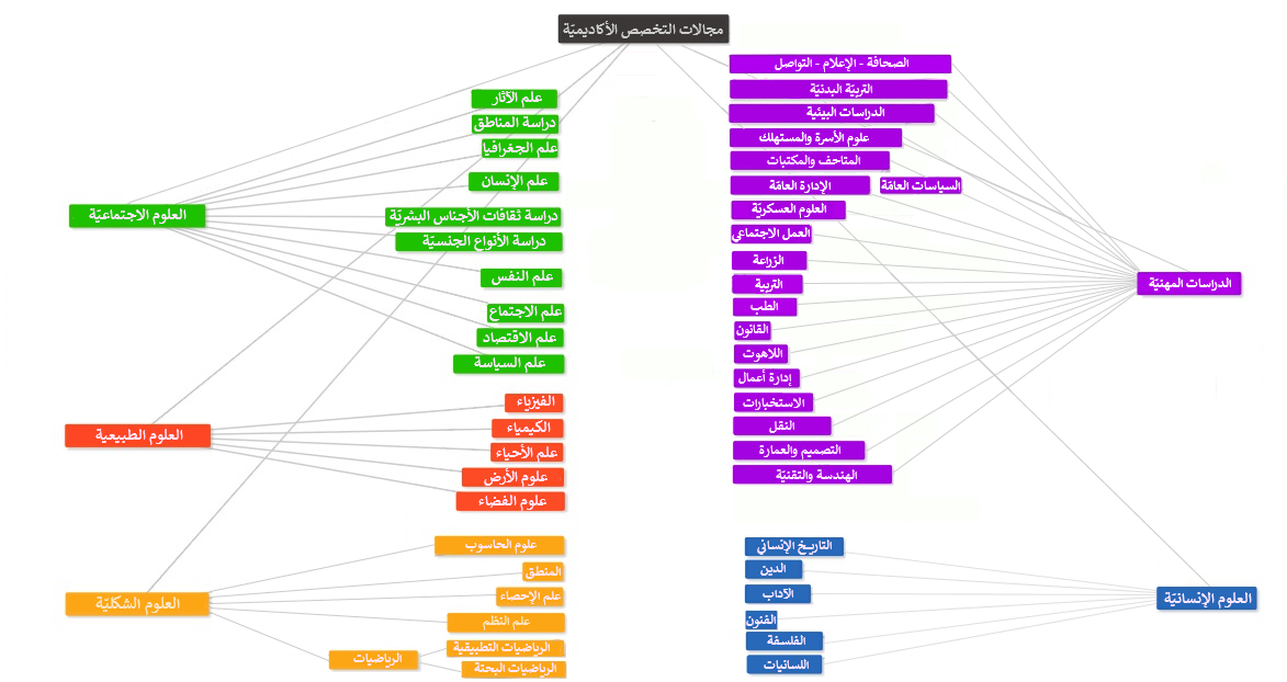 Mindmap of disciplines and professions